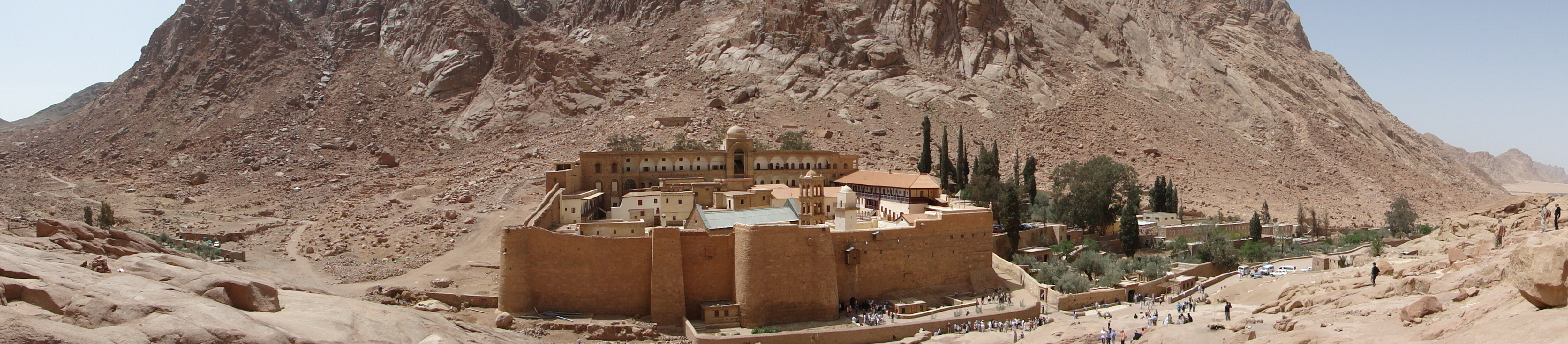 Panoramic view of St Catherine's monastery, Sinai, Egypt